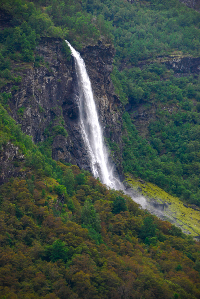 Rjoandefossen